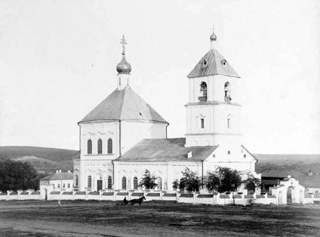 Assumption church, Kerensk, Russia